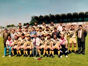 Ceahlăul Piatra Neamț 1992-1993 Divizia B season.